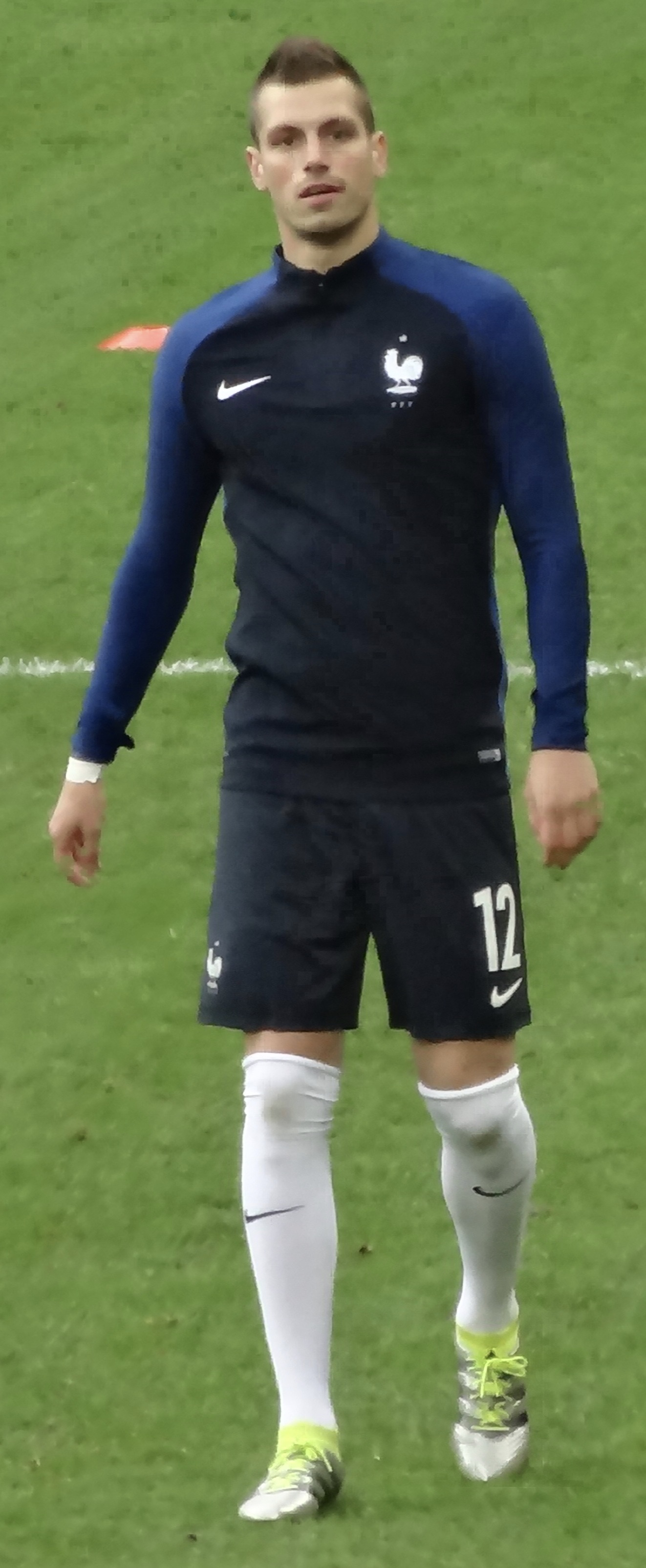 Morgan Schneiderlin (Euro 2016)